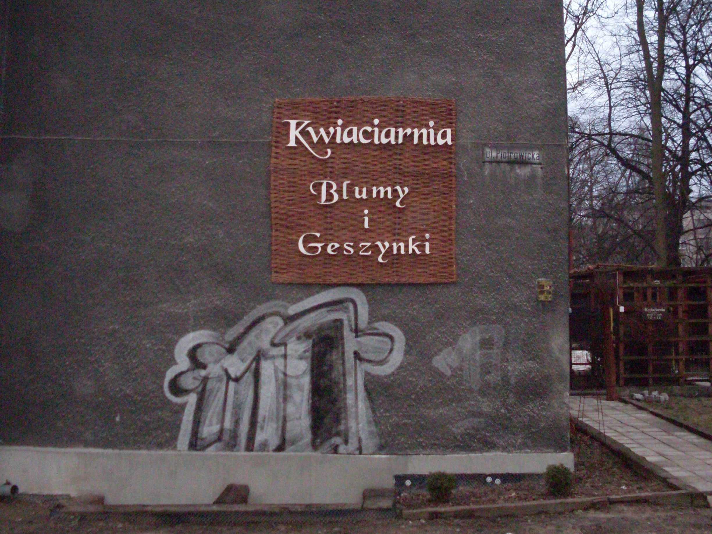 Example of use of the Silesian language: the Polish word "kwiaciarnia" (florist) is accompanied by the Silesian "Blumy i Geszynki" (flowers and gifts). Photo taken from Piotrowicka street in Katowice